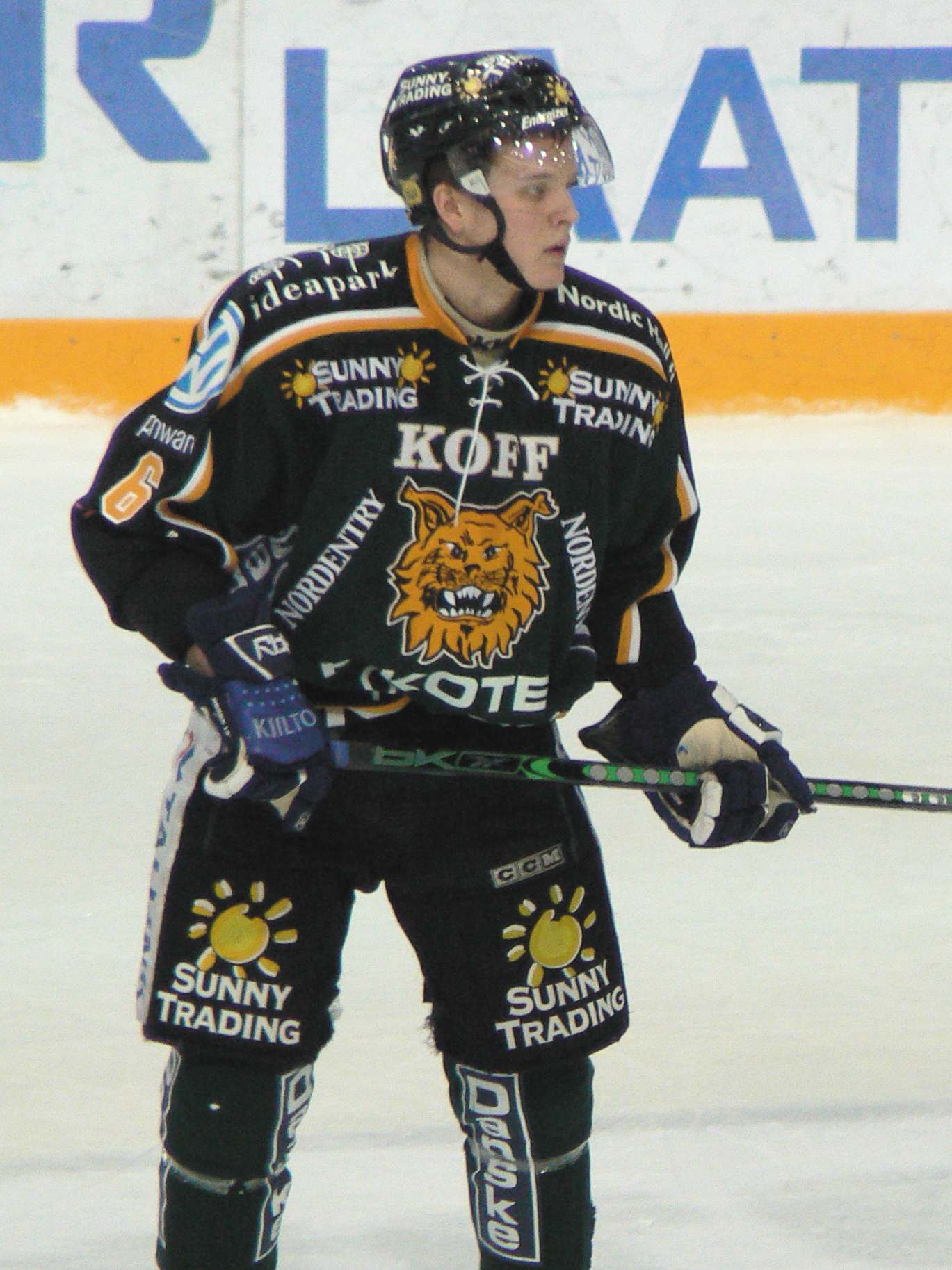 Finnish ice hockey defenseman Joonas Lehtivuori playing for Ilves Tampere in February 2008.